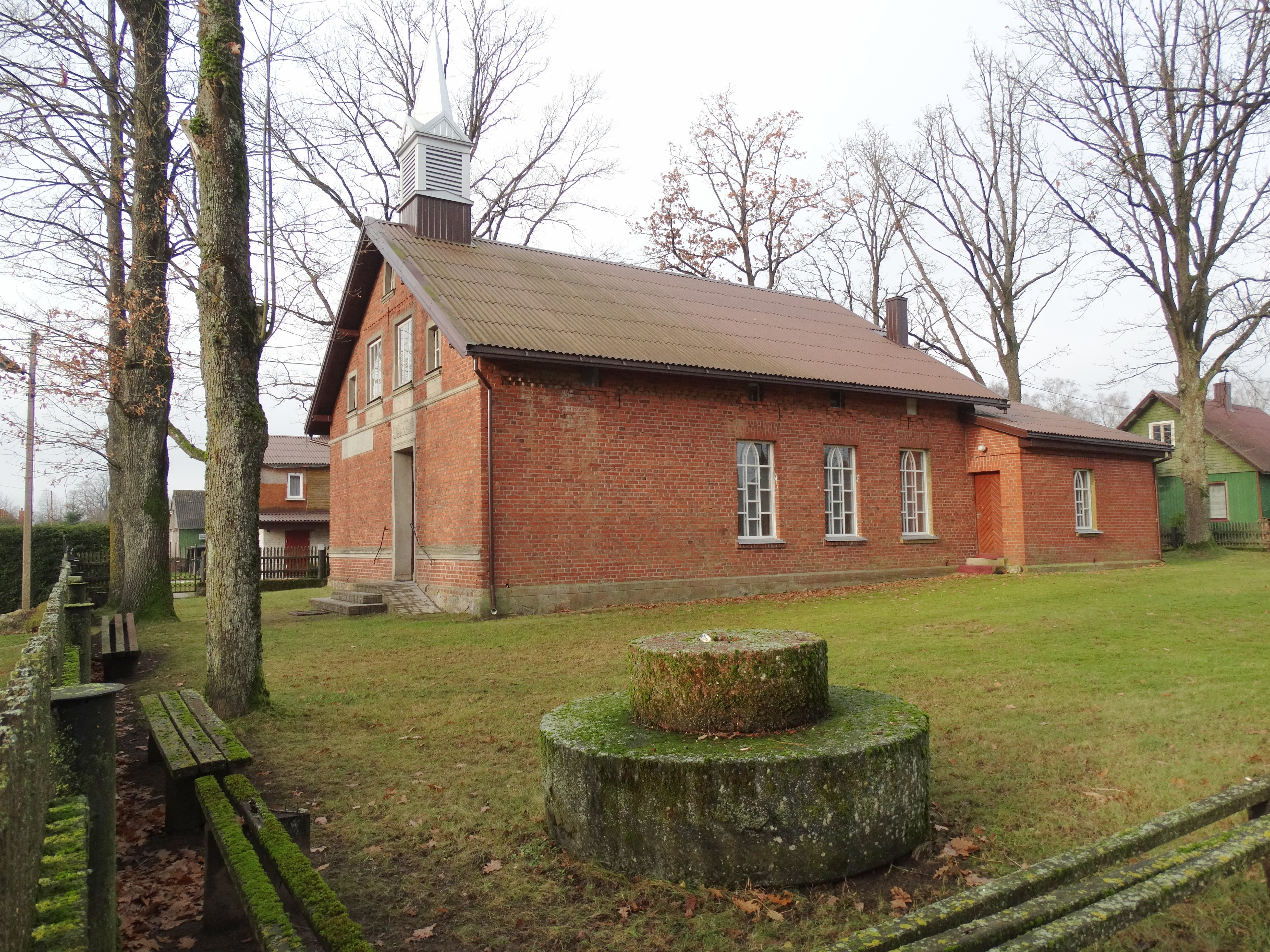 Smalininkai, Catholic Church, Jurbarkas district, Lithuania